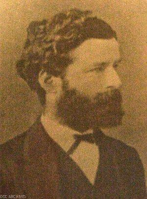 Photographic portrait of Richard Henry Leary, Mayor of Dunedin, 1877–78